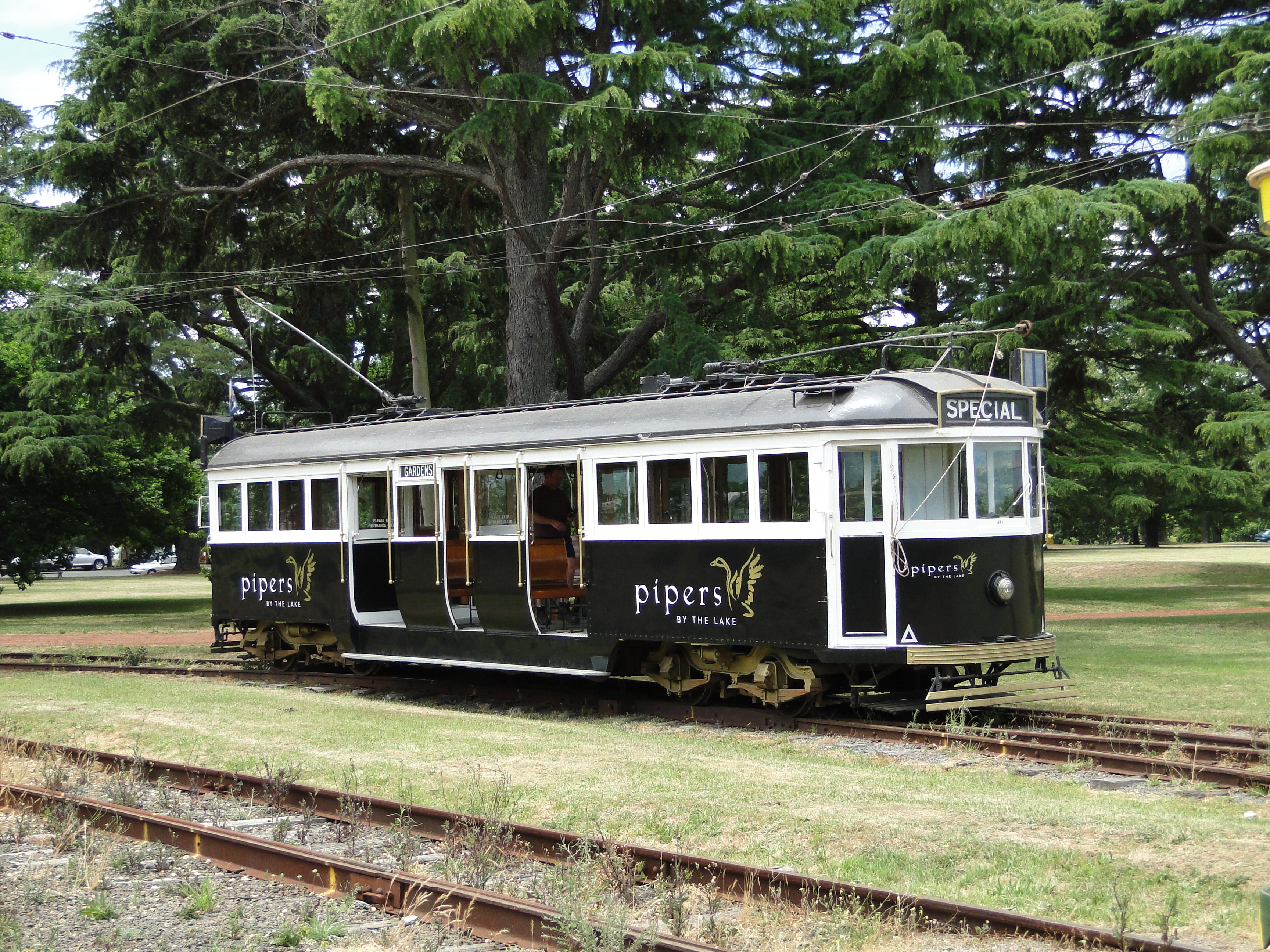 Ballarat tram No. 671, a W4 class tram from Melbourne, at the Ballarat Tramway Museum, Ballarat, Victoria, Australia.